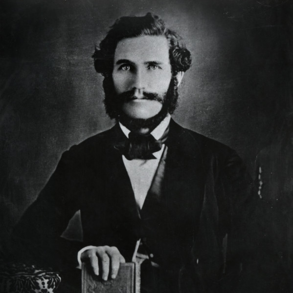 Ezekiel Wimberly Cullen was born in 1814. The Ezekiel Cullen Building on the University of Houston campus, constructed in 1950, was named in his honor.